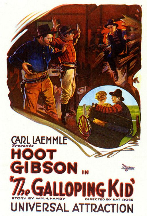 Movie poster for The Galloping Kid (1922).